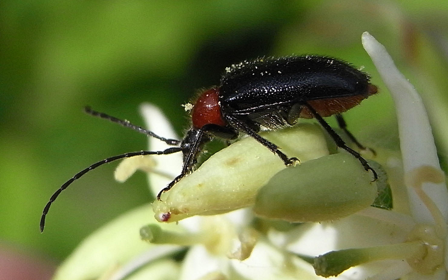 Dinoptera collaris from Southern Germany Ricoh R8